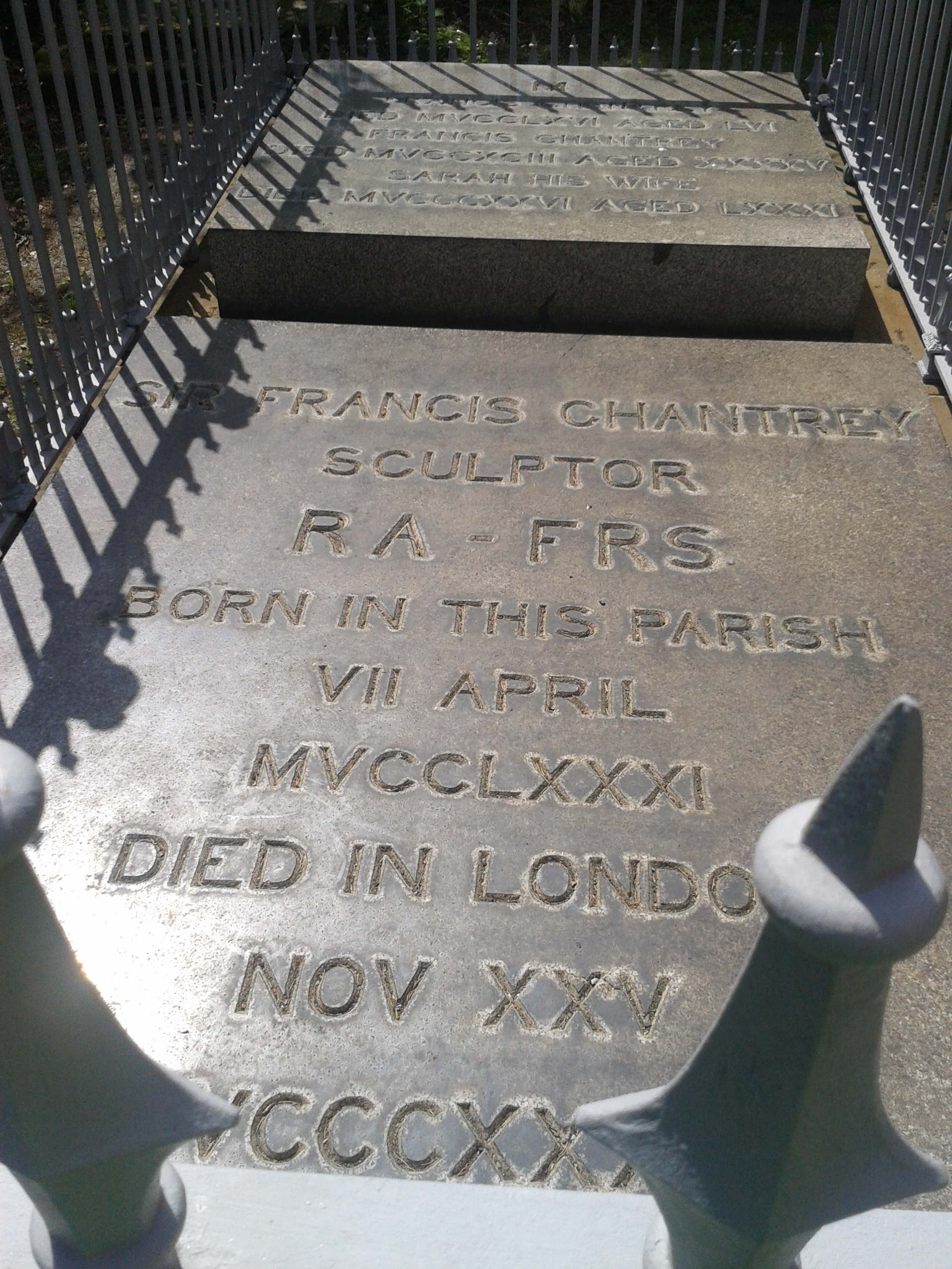 Tomb of Francis Chantrey, in the graveyard of St James church in the Norton area of Sheffield